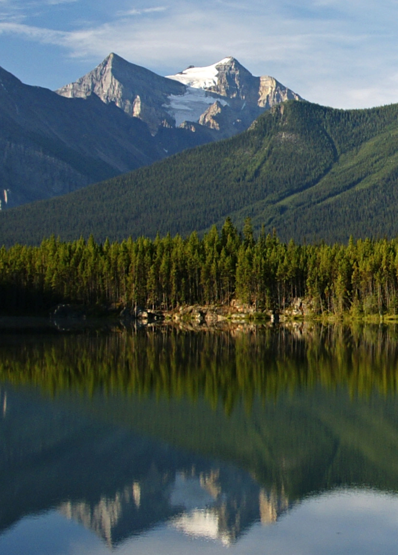 Banff National Park - Haddo Peak and Mount Aberdeen reflected in Lake Herbert